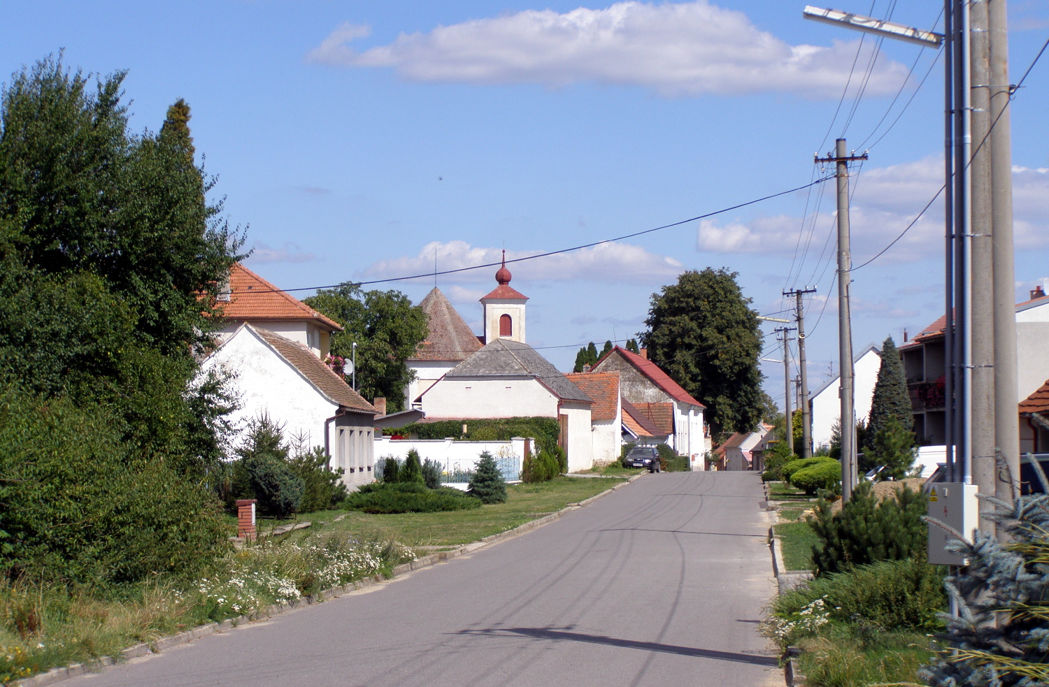 Radkovice village. Main street near Fourteen Holy Helpers church